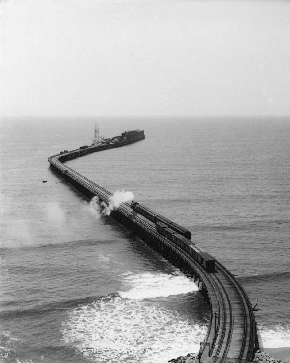 Long Wharf, California c. 1890's. Long Wharf built in 1893 by Southern Pacific Railroad in the Santa Monica Bay to serve as a port for Los Angeles.